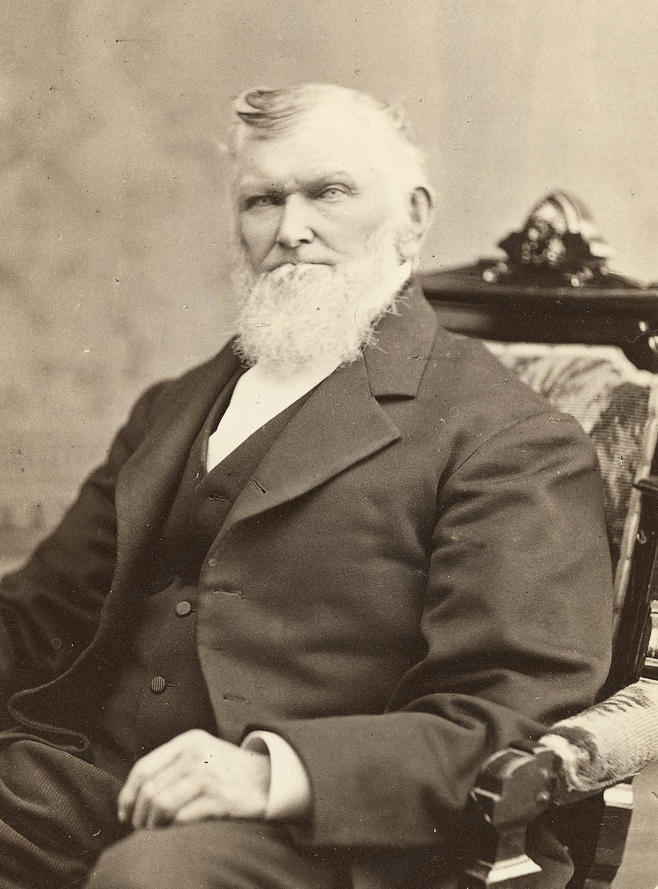 Studio portrait of Wilford Woodruff. Albumen print, original size 4.25×6.5in.